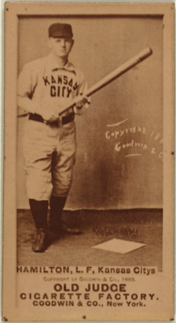 Billy Hamilton of the Kansas City Cowboys on an 1887-1890 Goodwin & Company baseball card (Old Judge (N172)). Explanation for public domain: copyright expired.